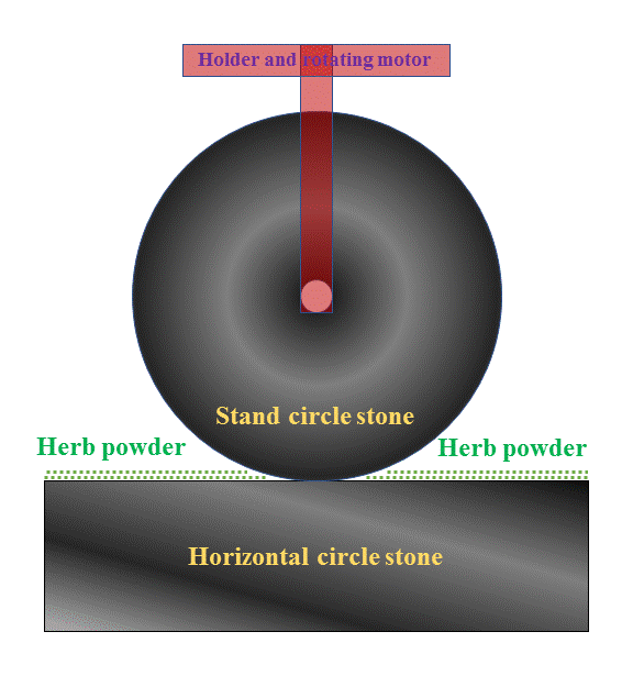 A schematic of a Māzāri system